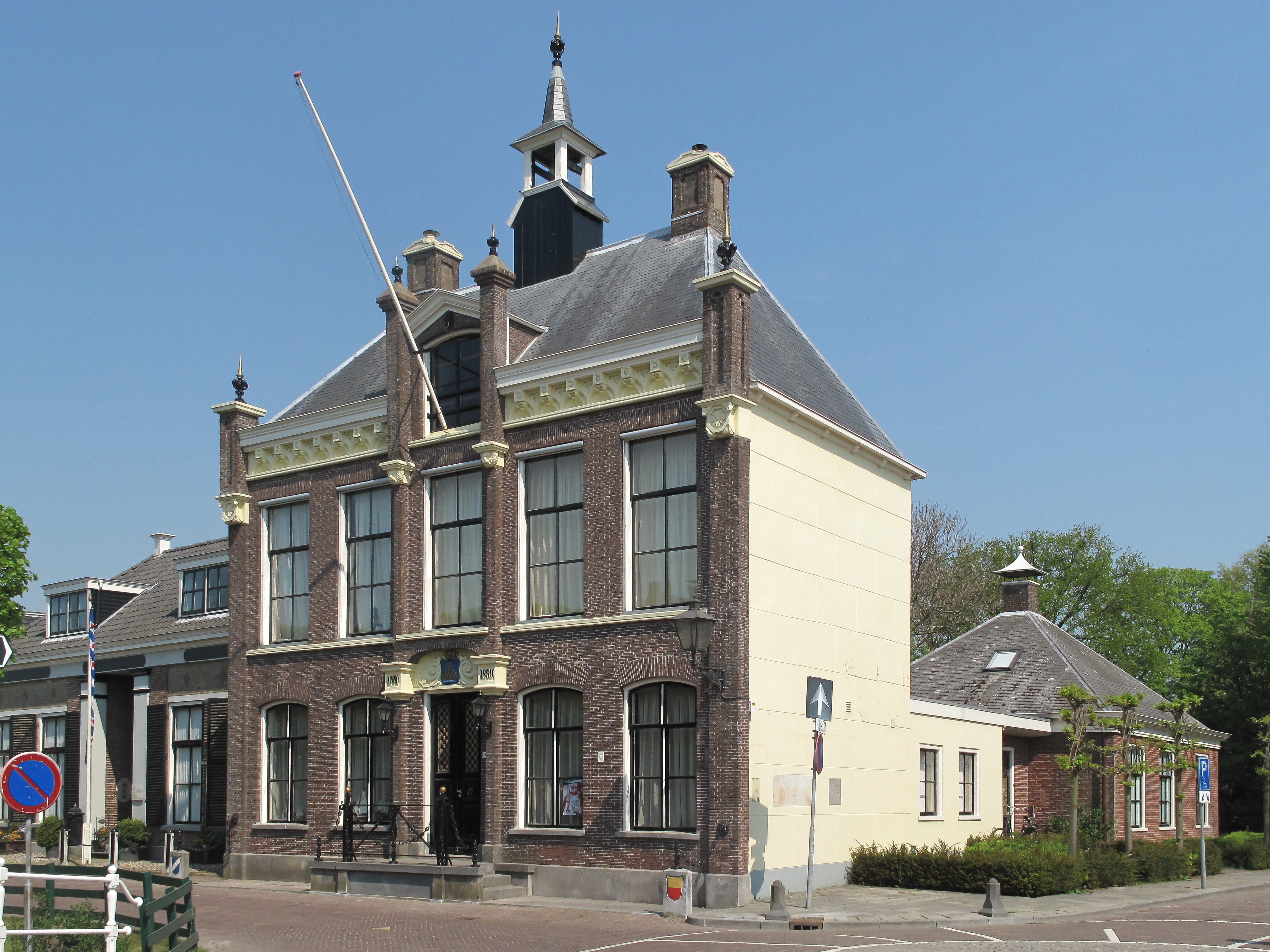 IJlst, former townhall